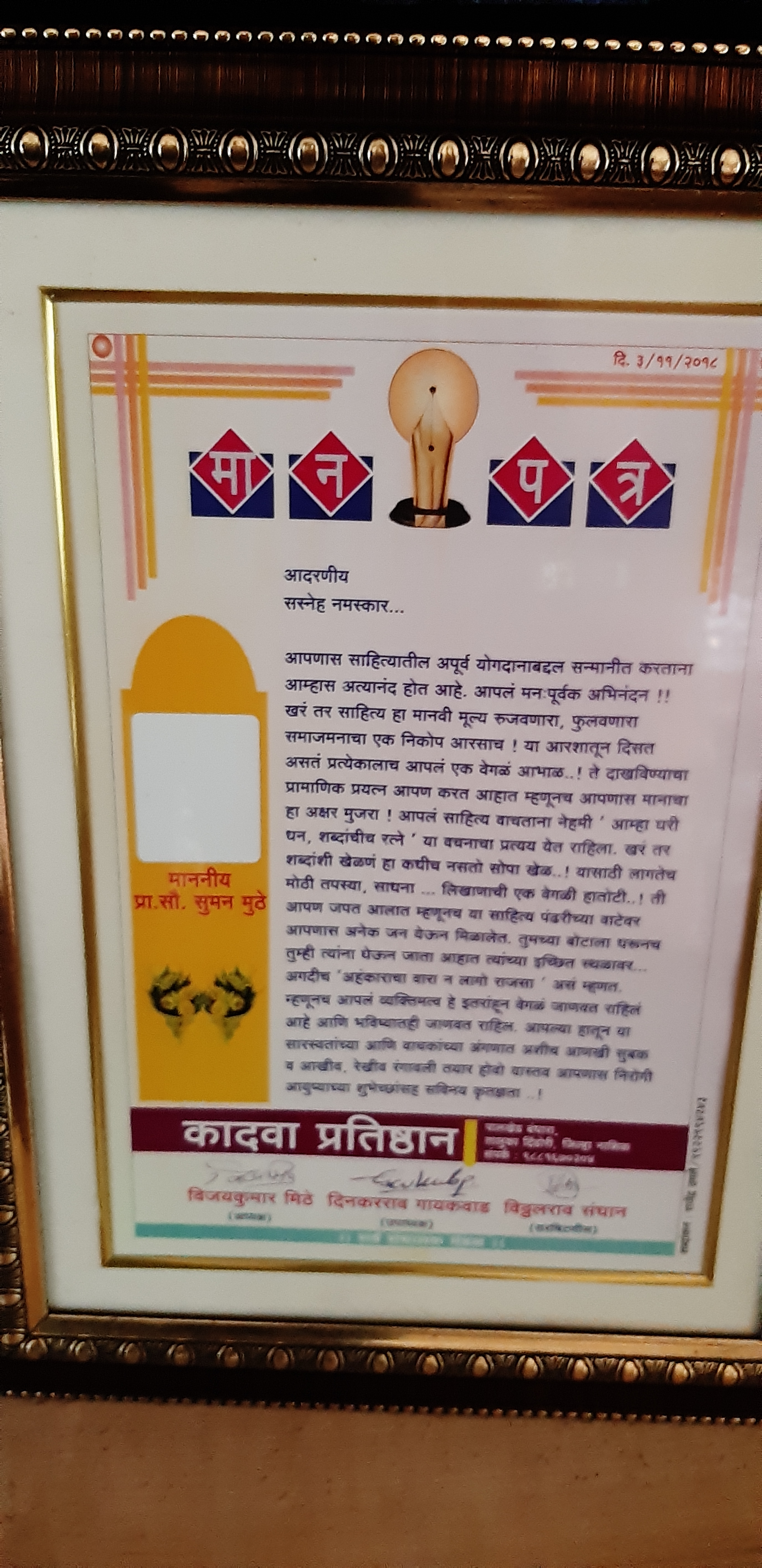 Kaadva Pratishthan Maanpatra